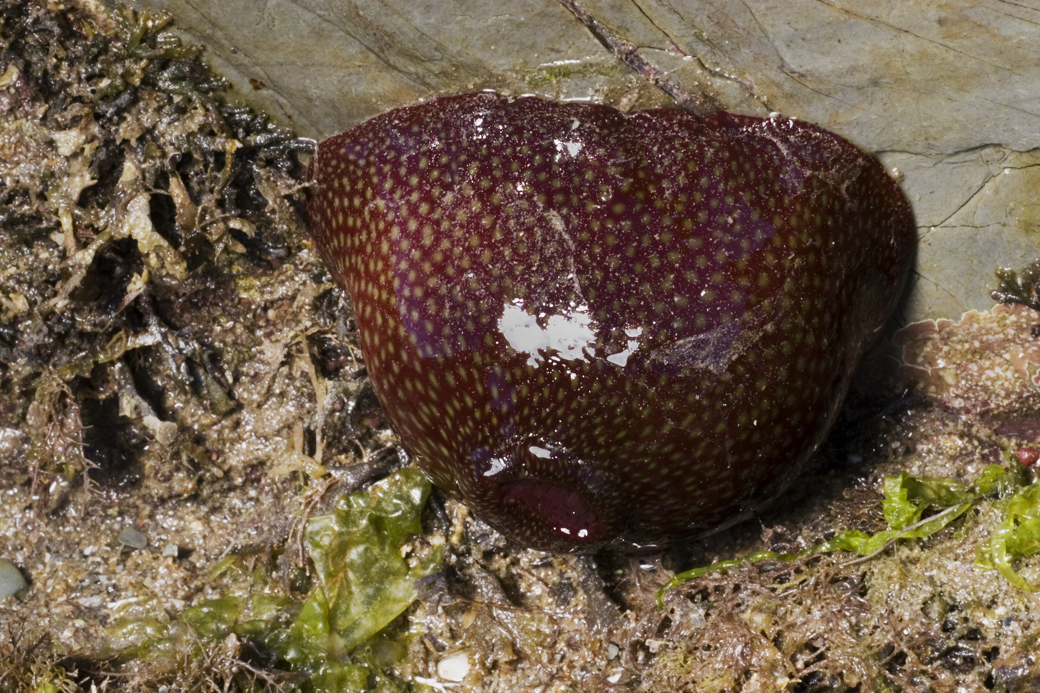 Actinia fragacea (Strawberry Anemone). The lower shore line at low tide, Lundy, Bristol Channel, UK.